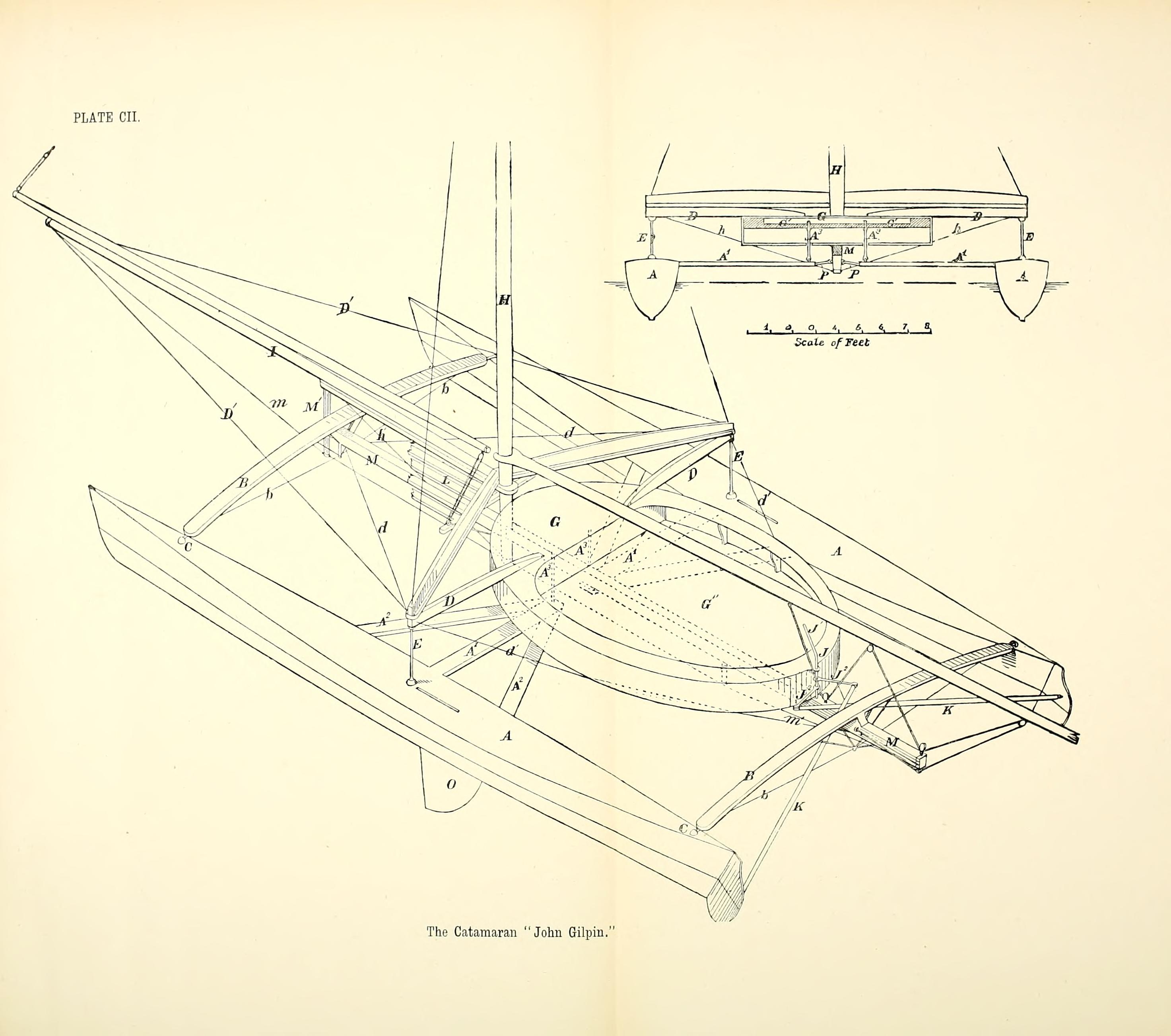 A drawing by Herreshoff of F. Roosevelt's 32ft catamaran John Gilpin (1877)